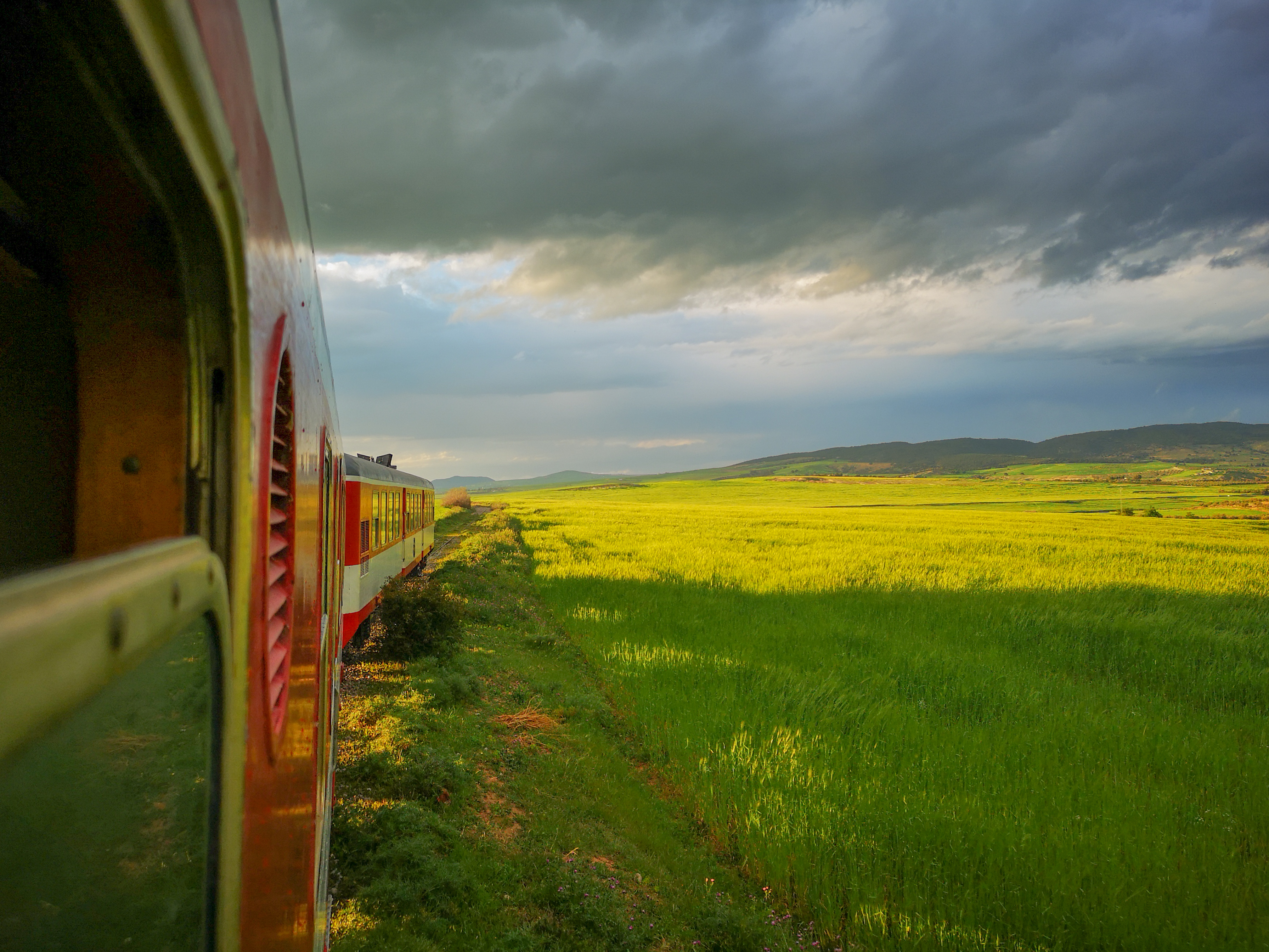 This is an image with the theme "Africa on the Move or Transport" from: Tunisia